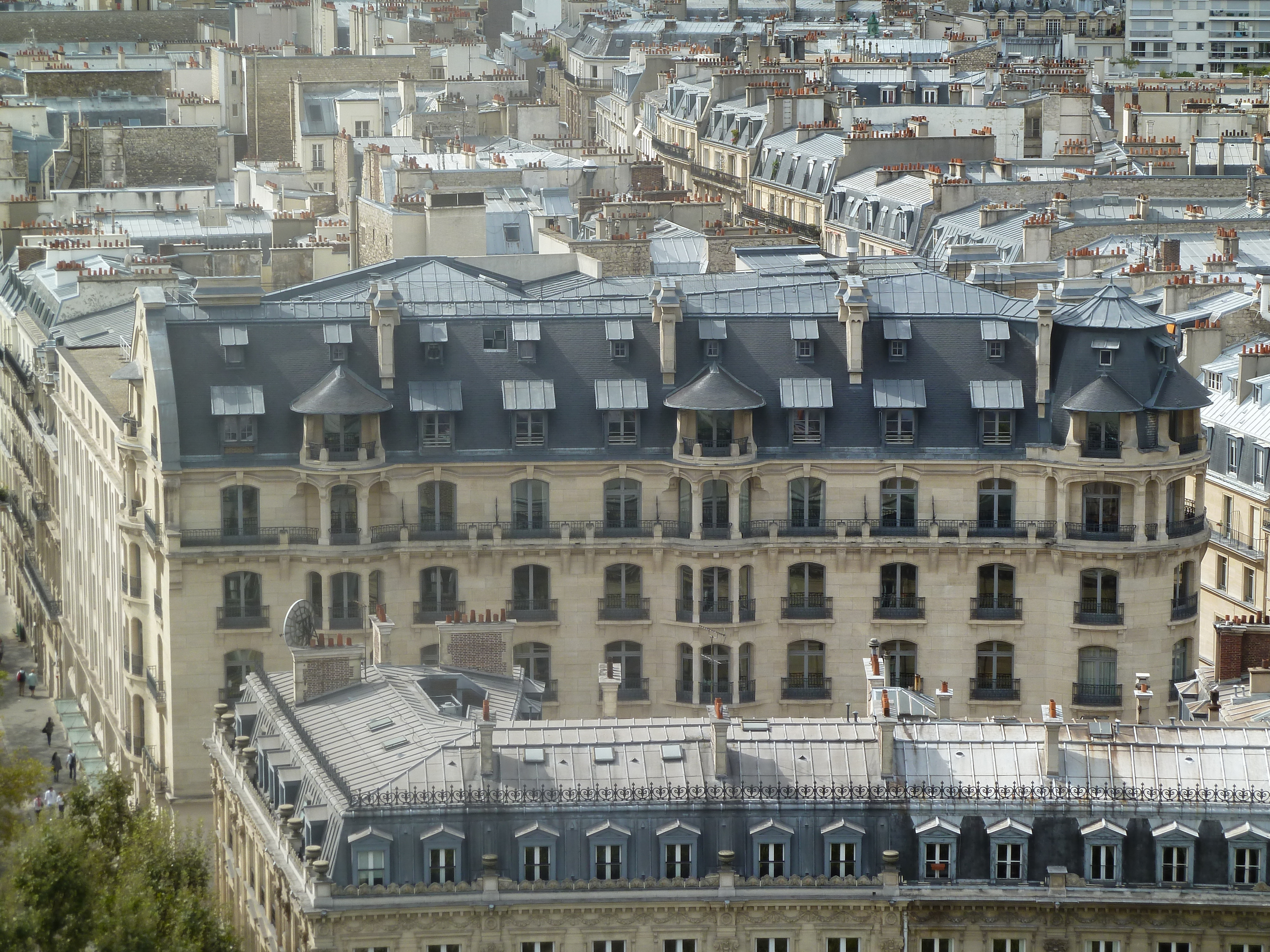 Mercédès Hotel at Presbourg Street in Paris.